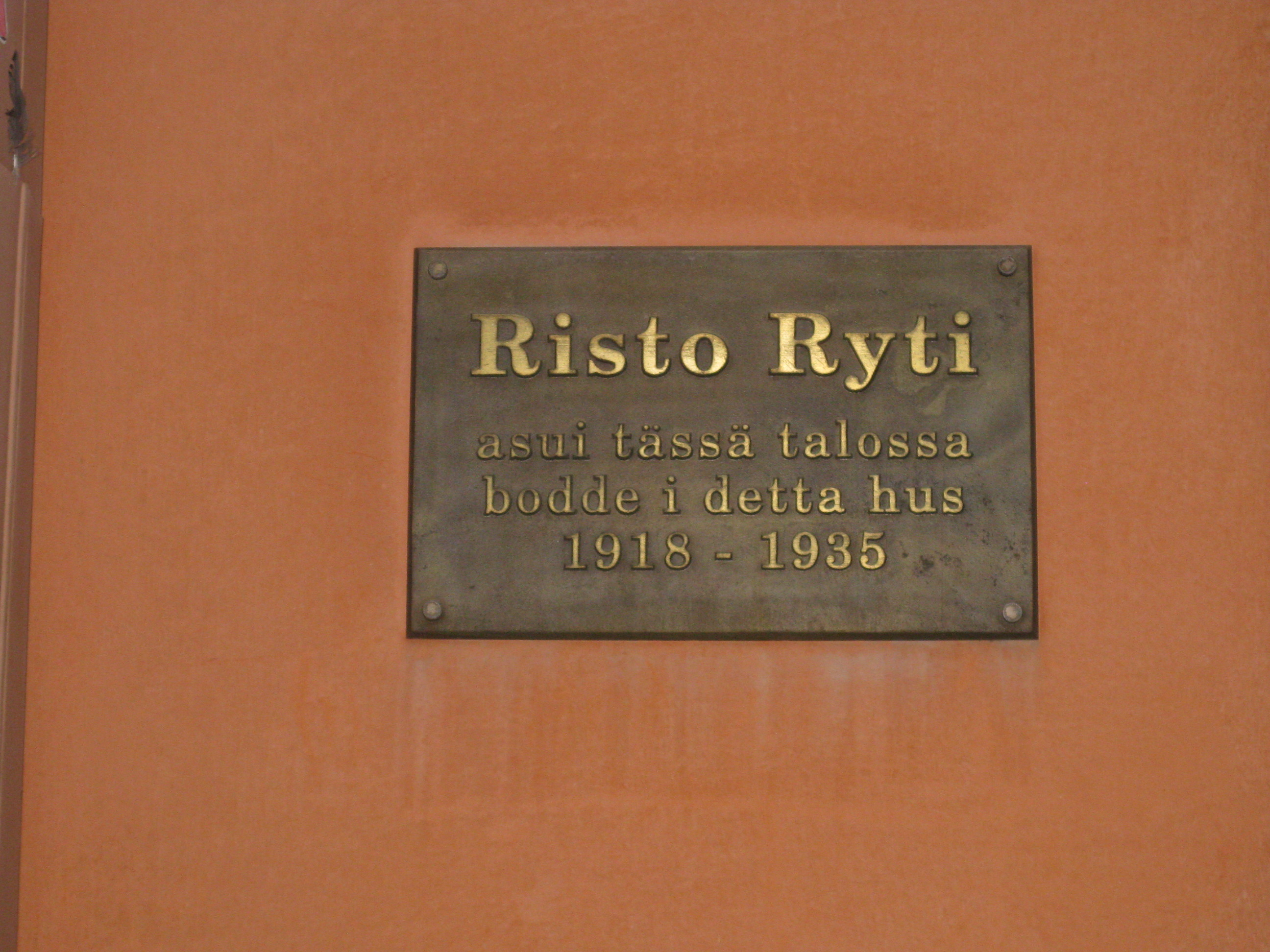 Plaque on the building where Risto Ryti lived 1918 to 1935 in Helsinki.